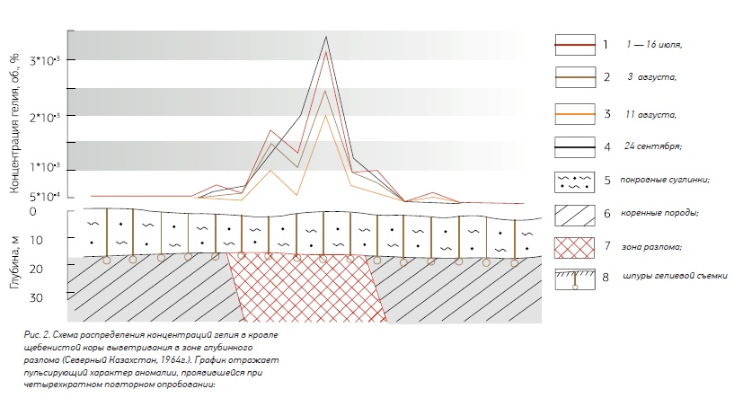 Helium concentration